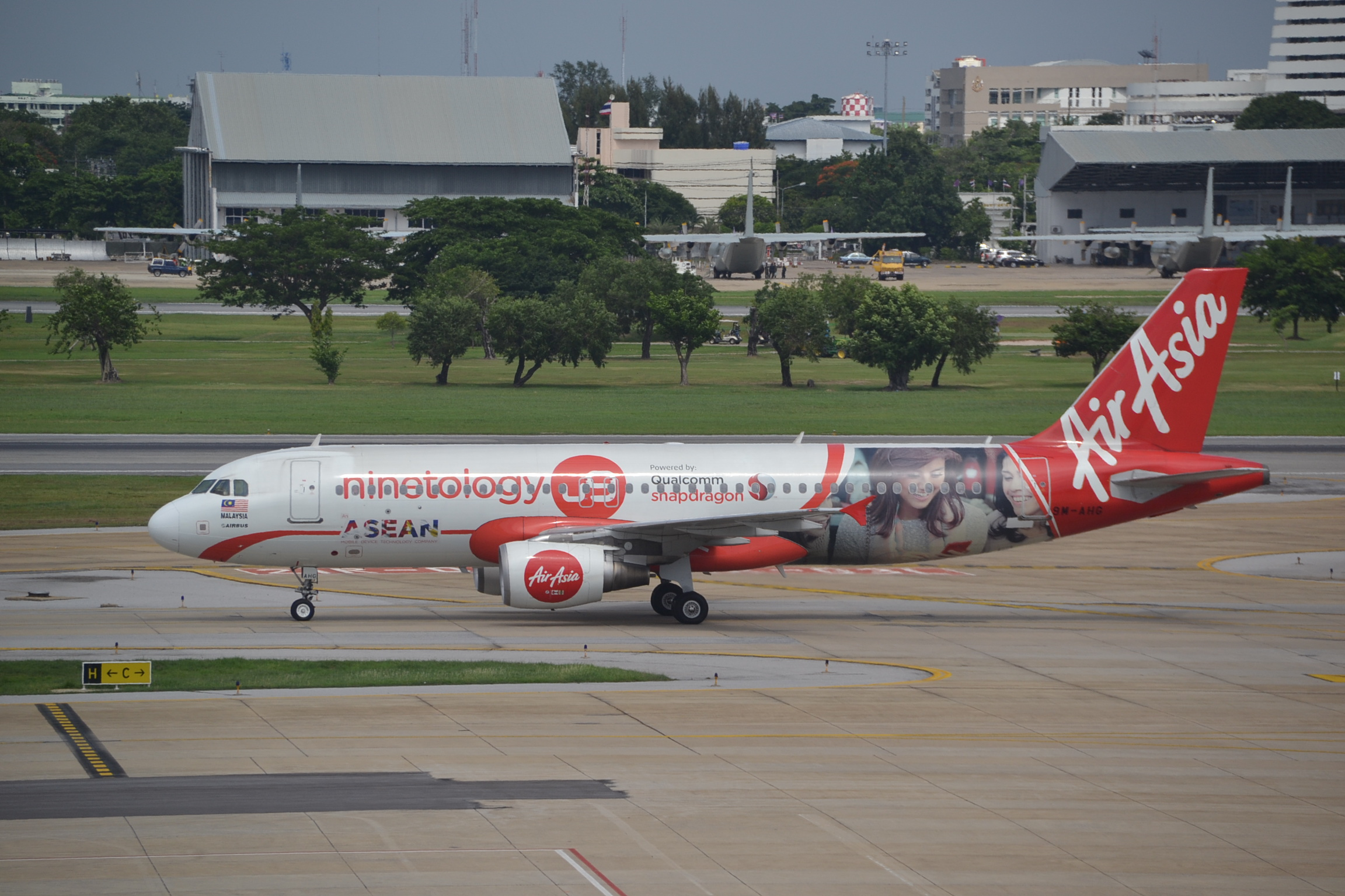 Airbus A320 of AirAsia,in spl.clrs./titles,"ninetology-ASEAN Mobile Device Technology Company," at Bangkok Don Mueang-DMK,Thailand,19/06/15.